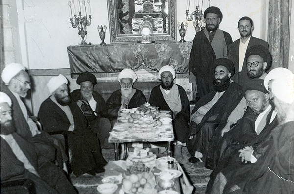 Sultan al-Wa'izin Shirazi